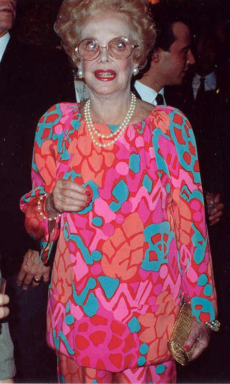 AIDS Project Los Angeles (APLA) benefit, Los Angeles- Sept. 1990- She played Mrs. Howell on Gilligan's Island